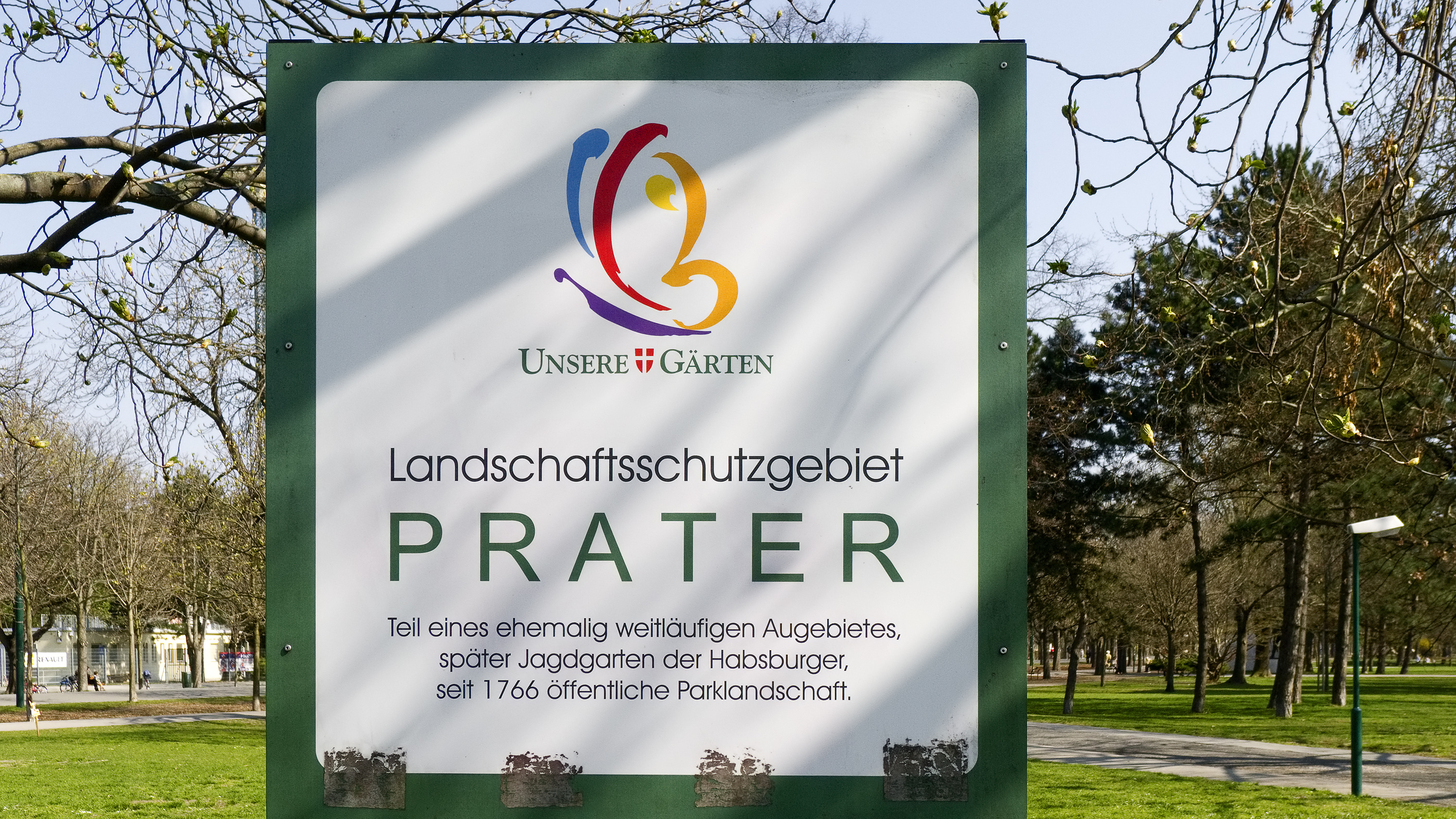 Sign at the Wiener Prater in Vienna